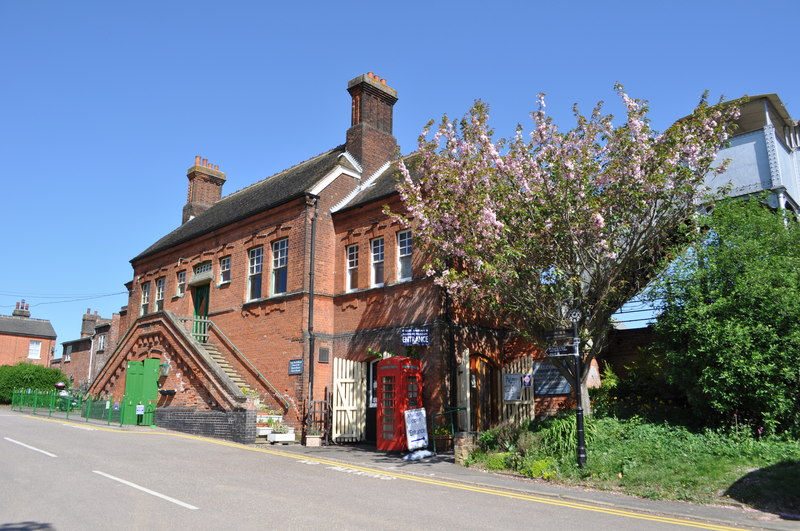 Chappel and Wakes Colne Station, near to Wakes Colne, Essex, Great Britain. This is the 1880 station, the earlier one is to the left (private house). This station now houses the East Anglian Railway museum.